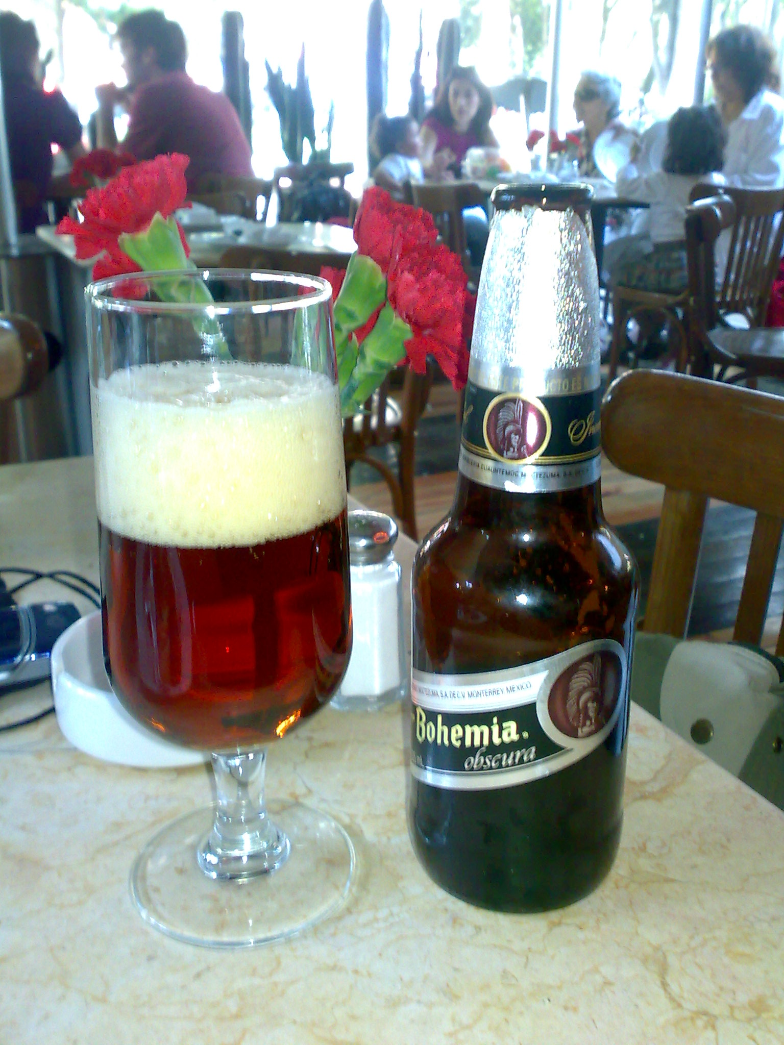 Bohemia dark beer. Picture taken by me.